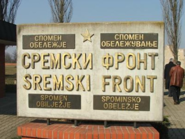 Syrmian Front Memorial complex